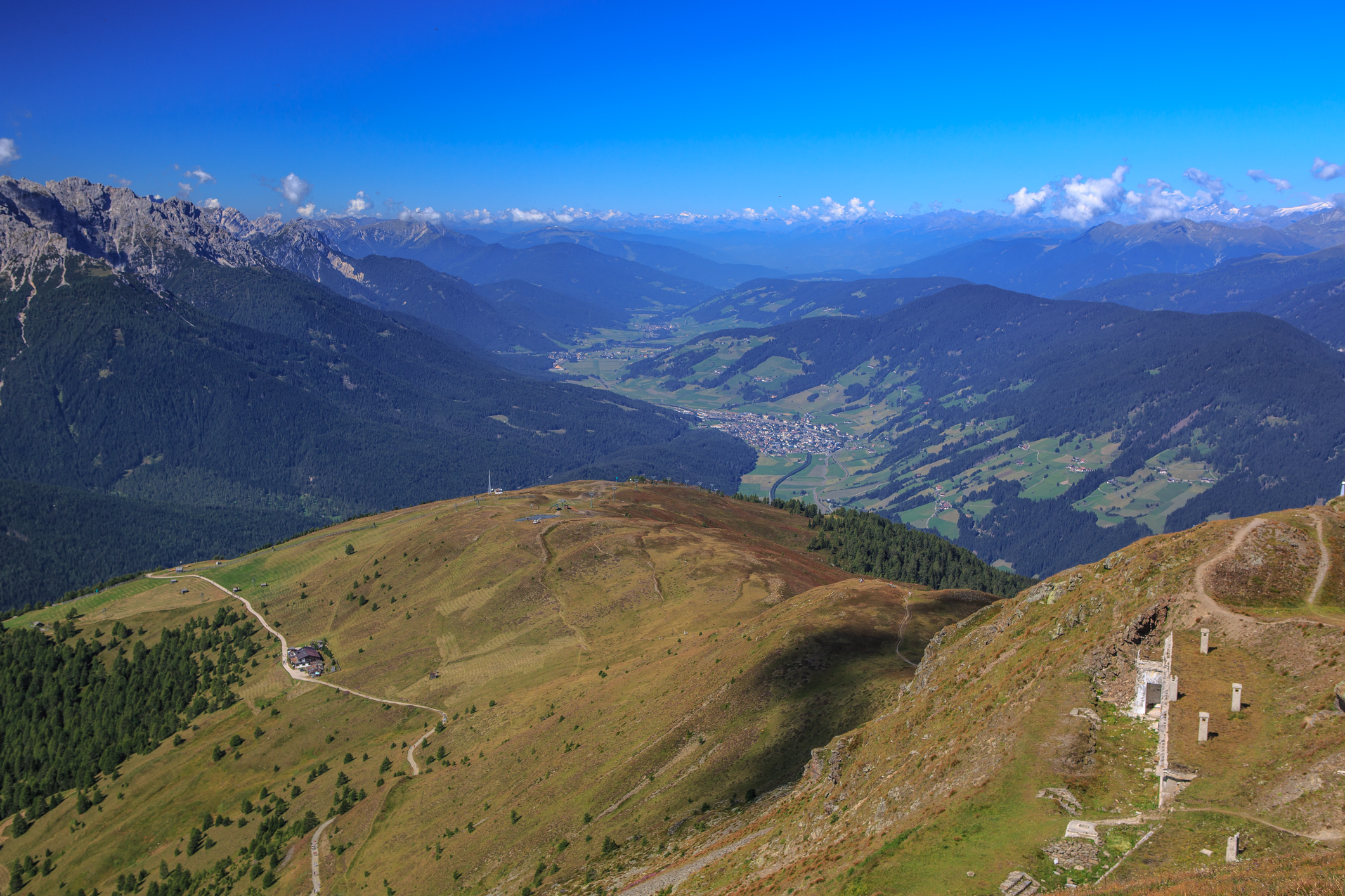 Dolomites...Dobbiaco area...Day 4 hike above Sexten on the Aust/Italy borderfrom Mt Elmo (2433m)...Dobbiaco in distance